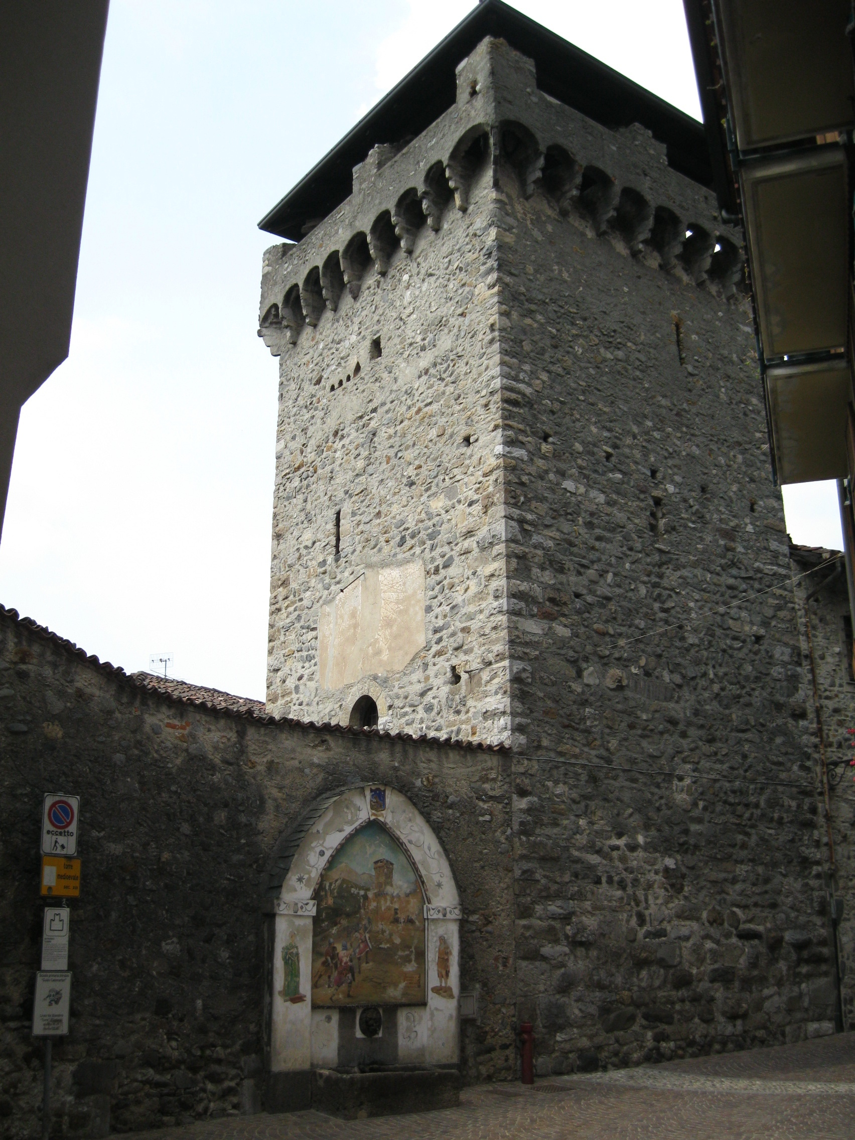 tower in Introbio, a small town in Lombardy, Italy